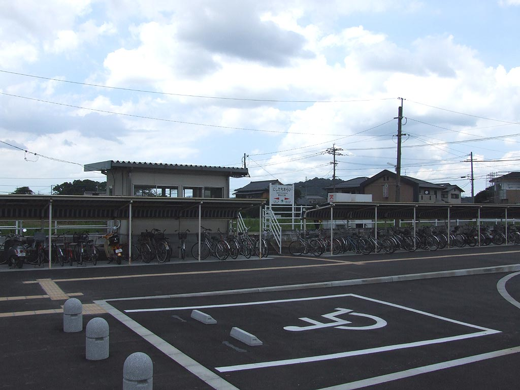 Nishitachiarai Station. Amagi Railway Amagi Aline.